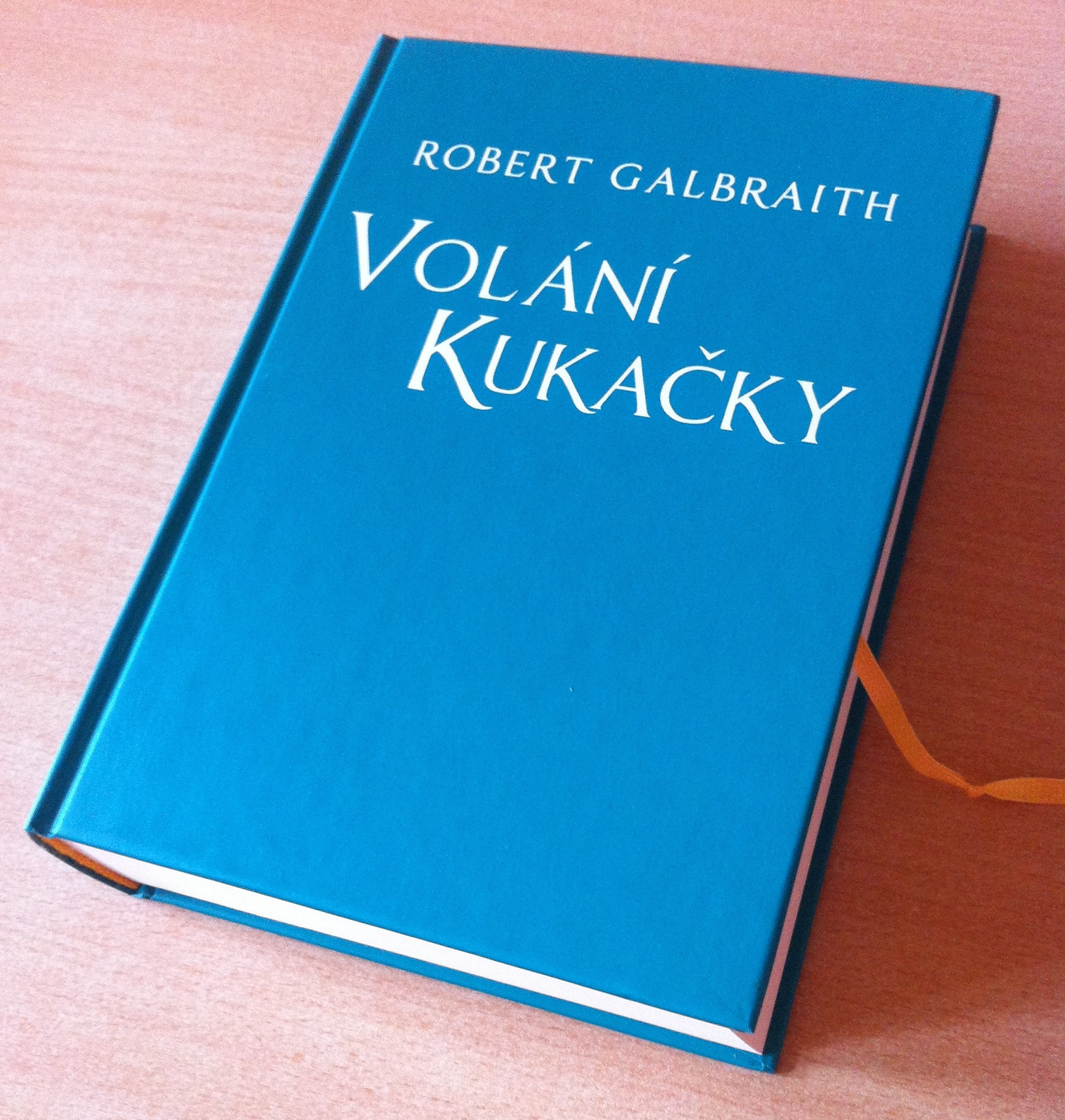 The Cuckoo's Calling Book (Czech edition)